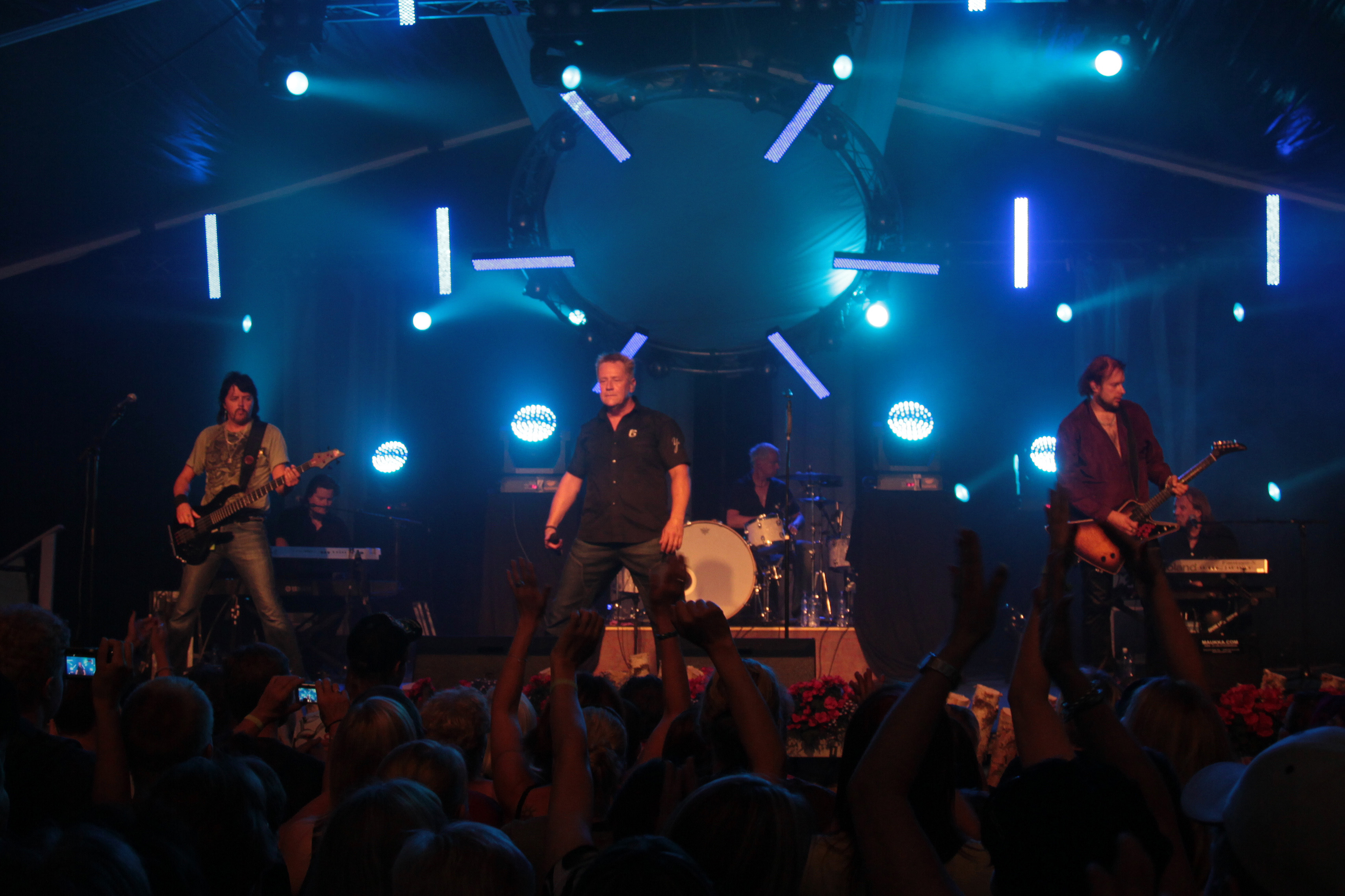 YÖ at IskelmäNiityt, Kiuruvesi